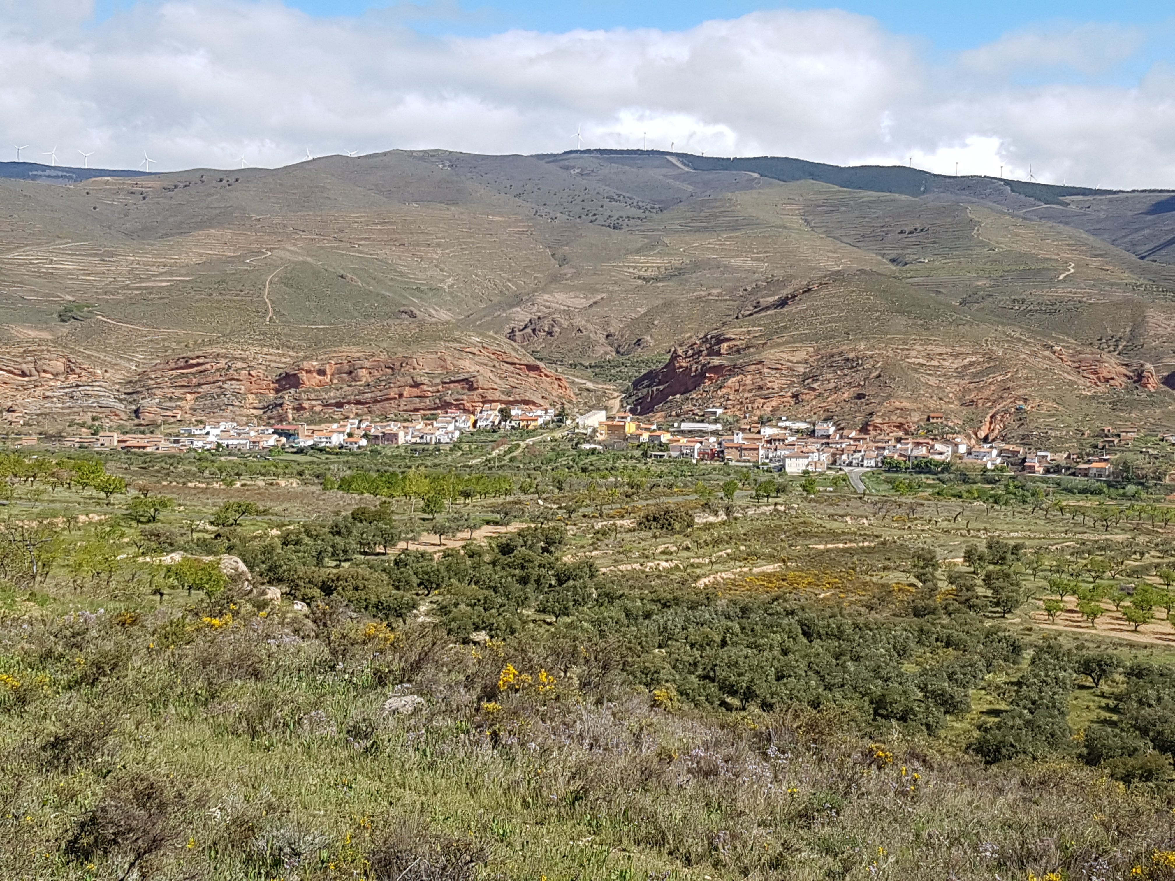 General view of Santa Eulalia Bajera, village in Spain, as seen from vía verde de Préjano.